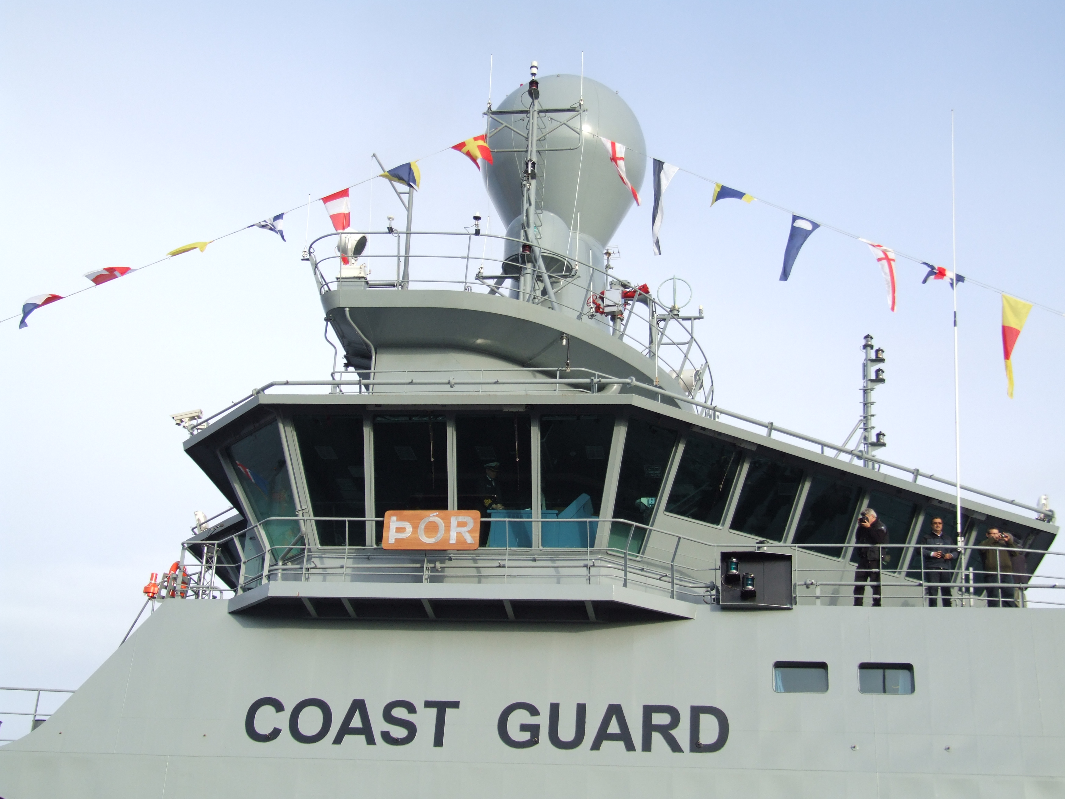 3 Arrival of Thor - Icelandic Coast Guard 2011-10-27 Reykjavik